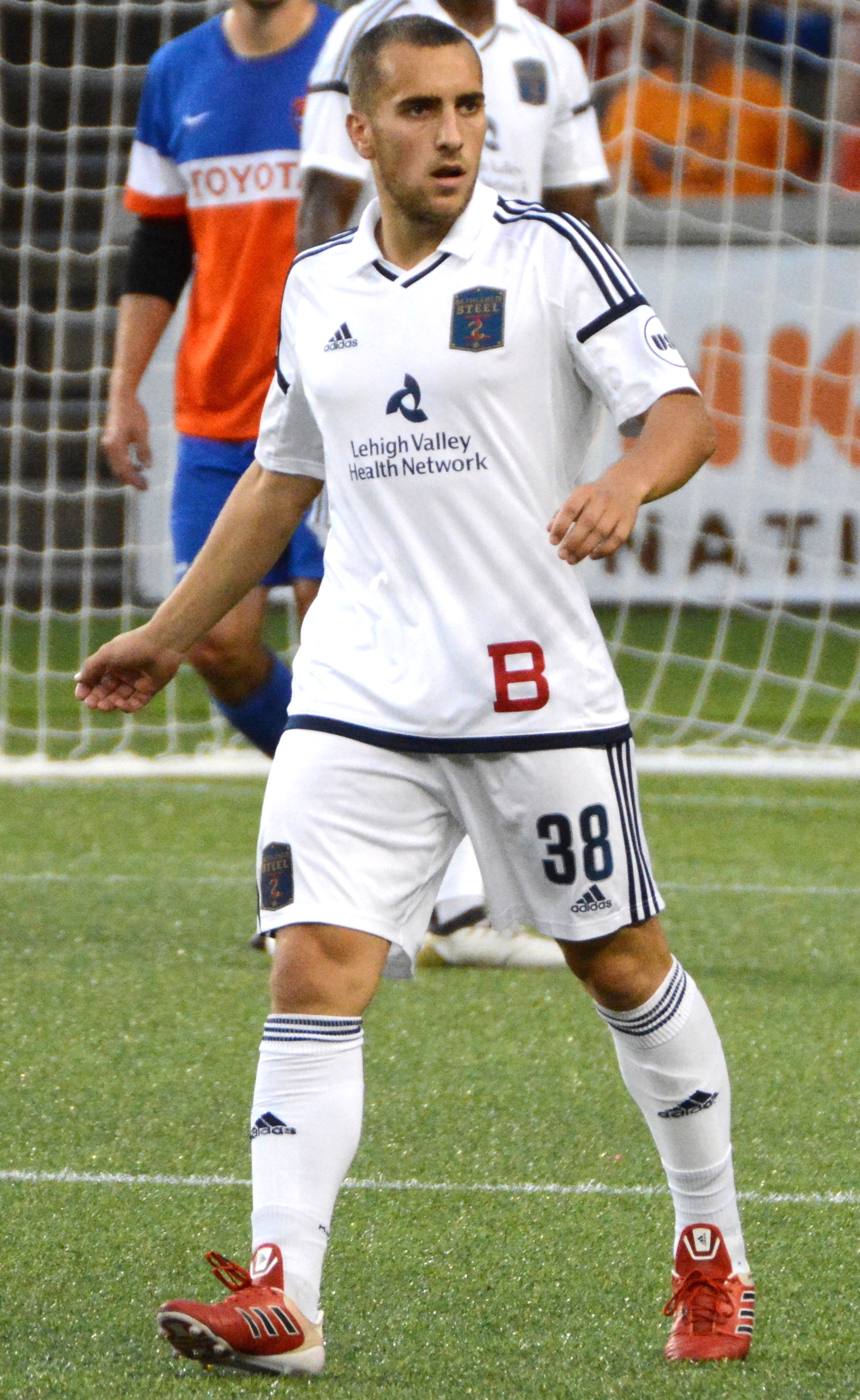 Santi Moar Taken during a match between FC Cincinnati and Bethlehem Steel FC at Nippert Stadium in Cincinnati, USA on May 20, 2017.